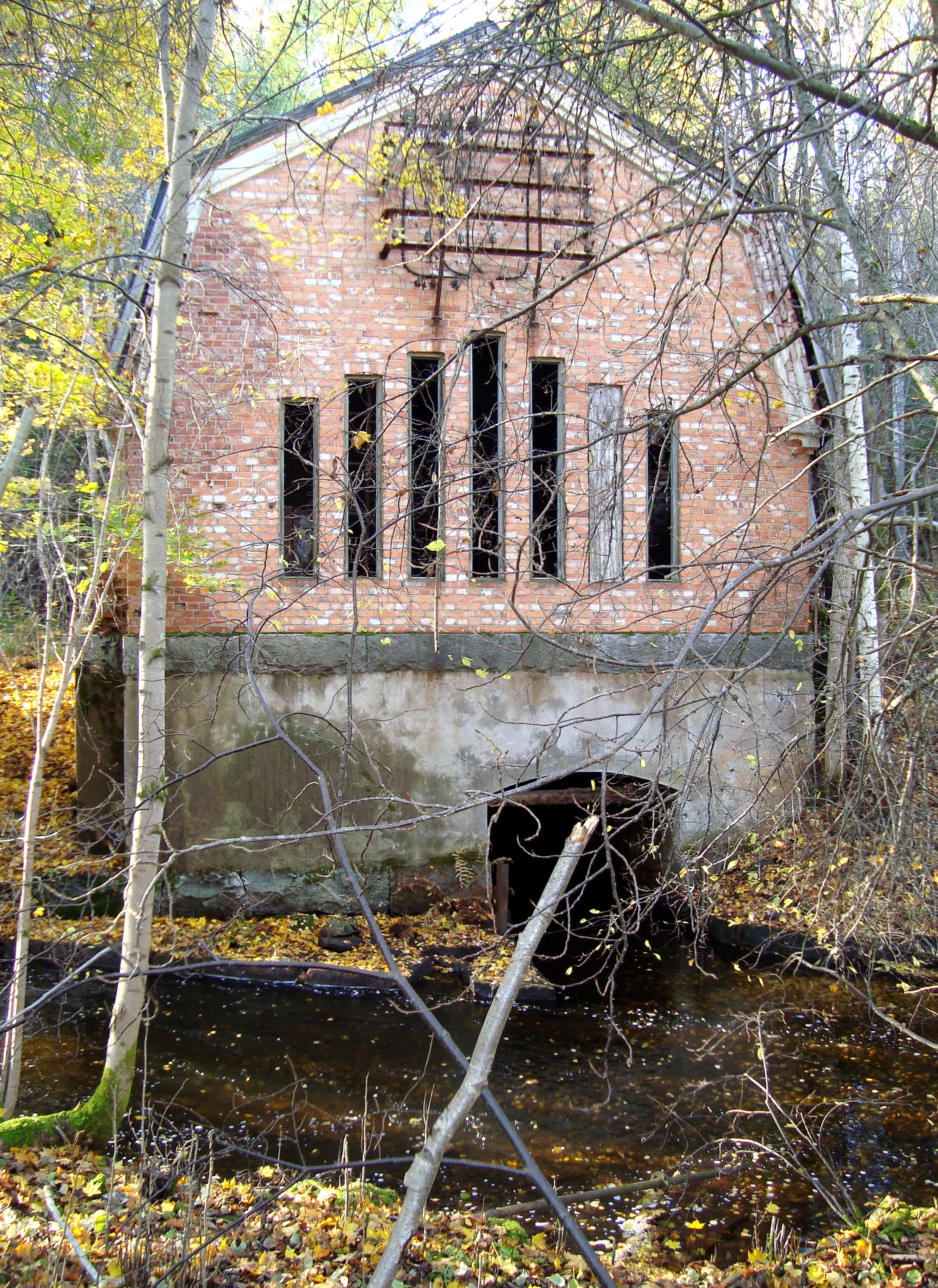 Old hydro power station in the stream Lustån, Turbo village, Hedemora municipality, Sweden